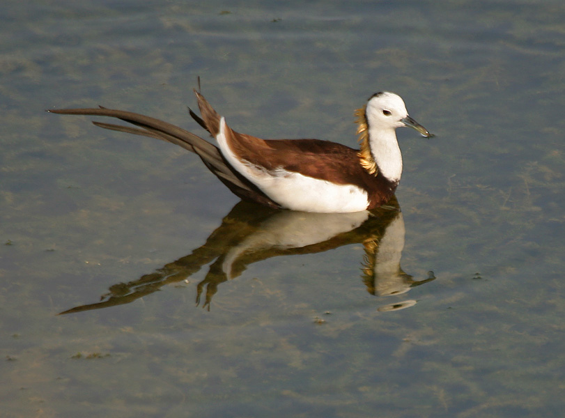 Pheasant-tailed Jacana Hydrophasianus chirurgus at Lotus Pond, Hyderabad, India.